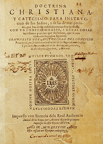 Title page of the Doctrina christiana y catecismo para instruccion de los Indios..., the first book printed in South America, in Lima, 1584, by Antonio Ricardo